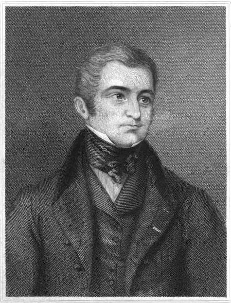 Adolphe Thiers